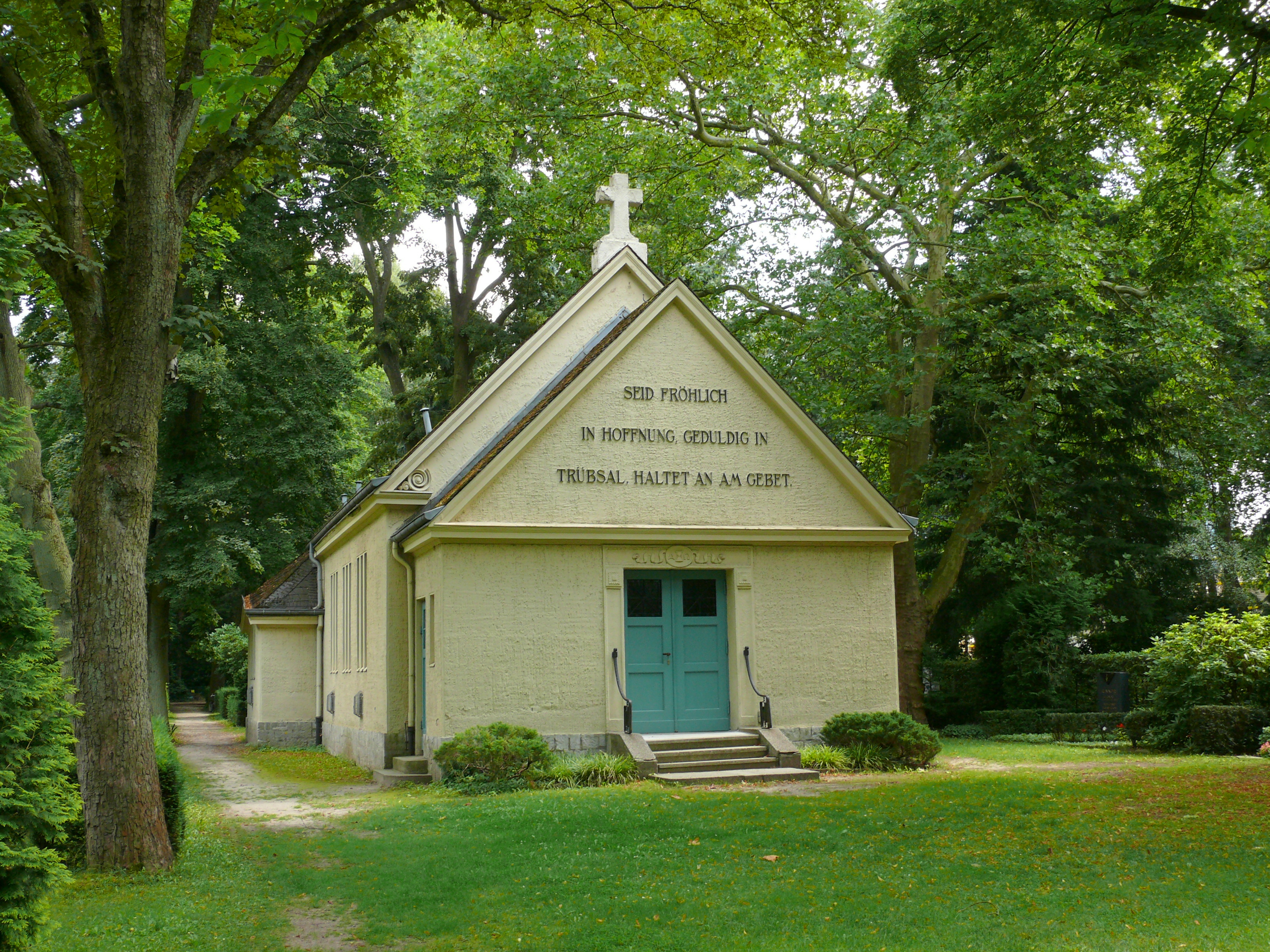 Berlin-Nikolassee Kirchweg 18-20 Friedhofskapelle